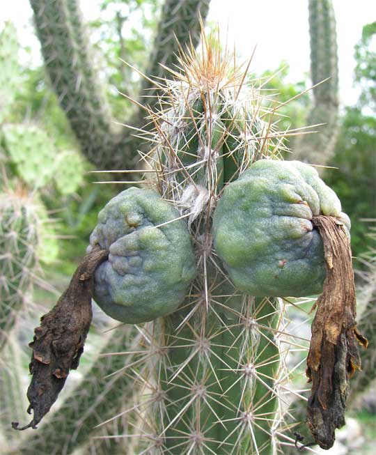 A fruiting Cephalocereus gaumeri cactus. = Pilosocereus polygonus